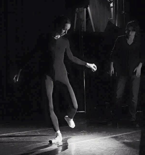 Film director Andrei Severny and Diana Vishneva on the set of Gravitation: Variation in Time and Space at the Alvin Ailey Theater, New York.